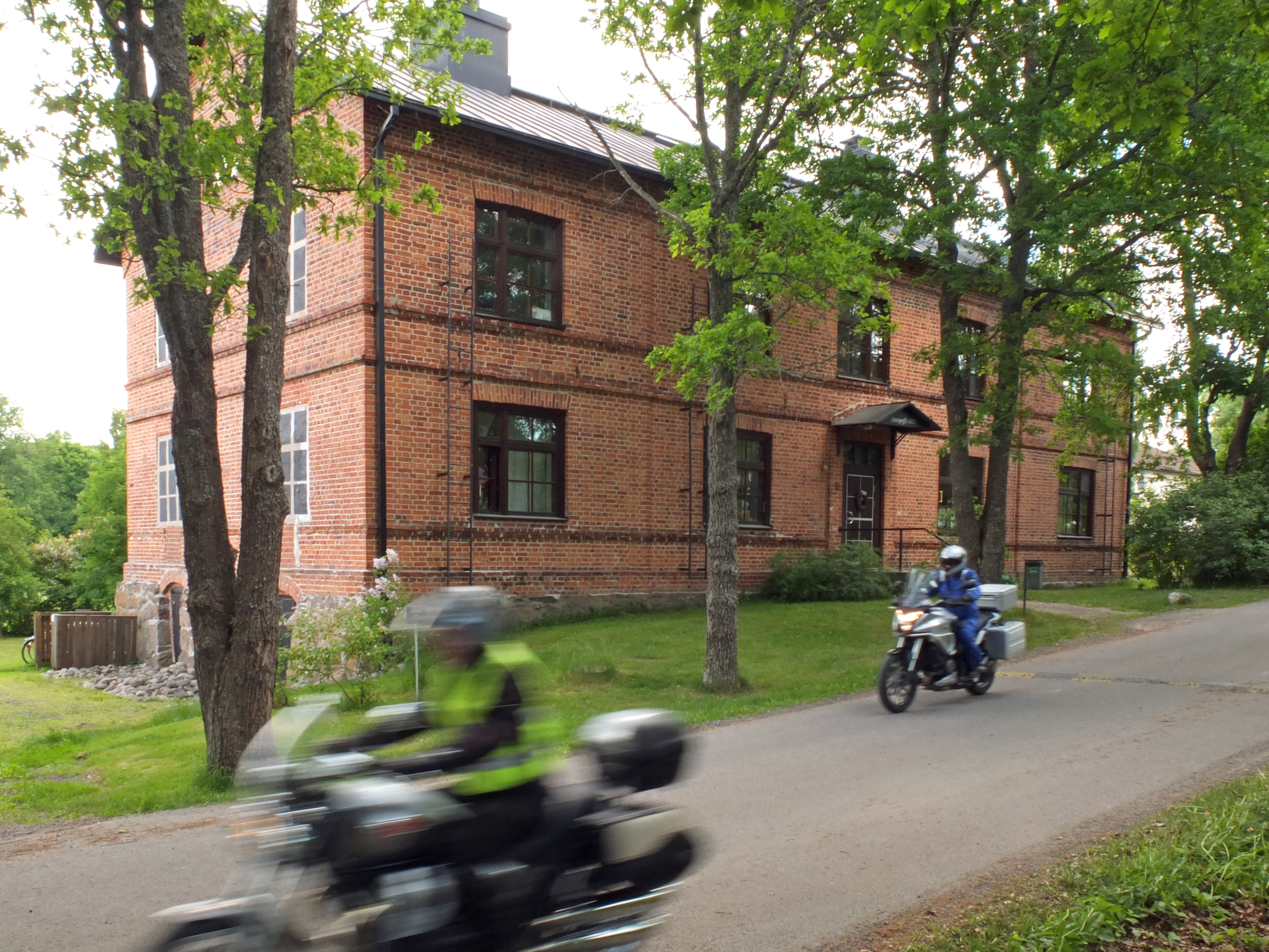 Anttipoffi building from year 1852 at Mathildedal Bruk (Mathildedalin Ruukki), Perniö, Salo, Finland. Address: Matildan puistotie 11, Mathildedal.